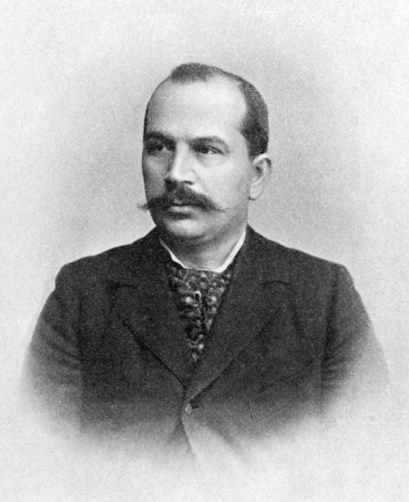 Portrait of Jan Vilím (1856-1923), Czech xylographer, graphic artist and printworks director